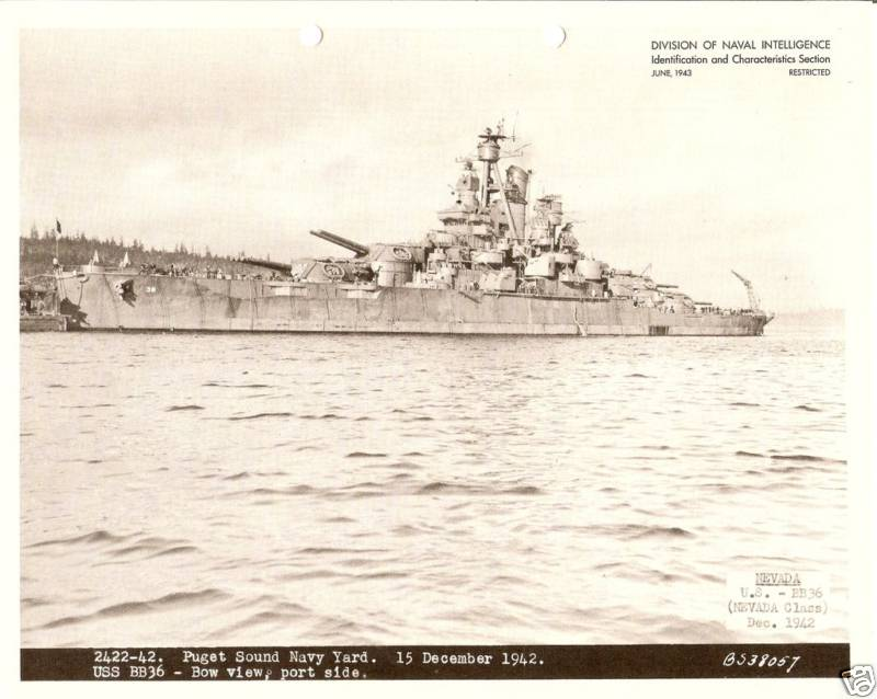 A June 1943 Division of Naval Intelligence, Identification and Characteristics Section print of a 15 December 1942 photo of USS Nevada (BB-36).